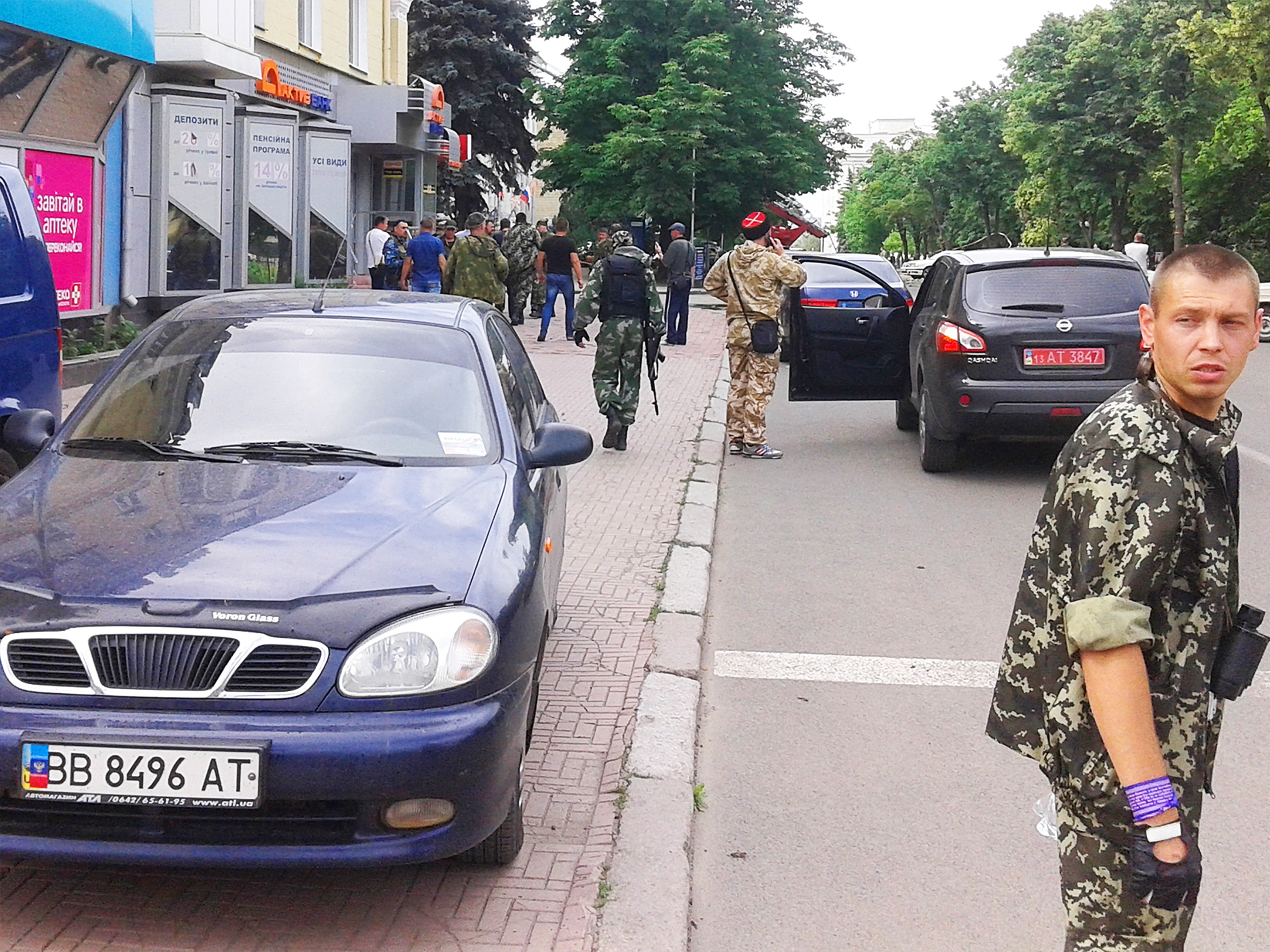 The militants of the organization "Luhansk People's Republic." Some of them came from outside Ukraine. There is a "Kuban Cossacks" (in the middle). In the organization there are a lot of Muslims from the Caucasus. But the majority identify themselves as the Orthodox believers. On the separatist’s wrist (right) there is a tape with a prayer "Who lives under the shadow of the Almighty", Psalm 91 (Septuaginta/Vulgata Psalm 90). At the license plates there is a flag of the LPR instead of Ukrainian flag.